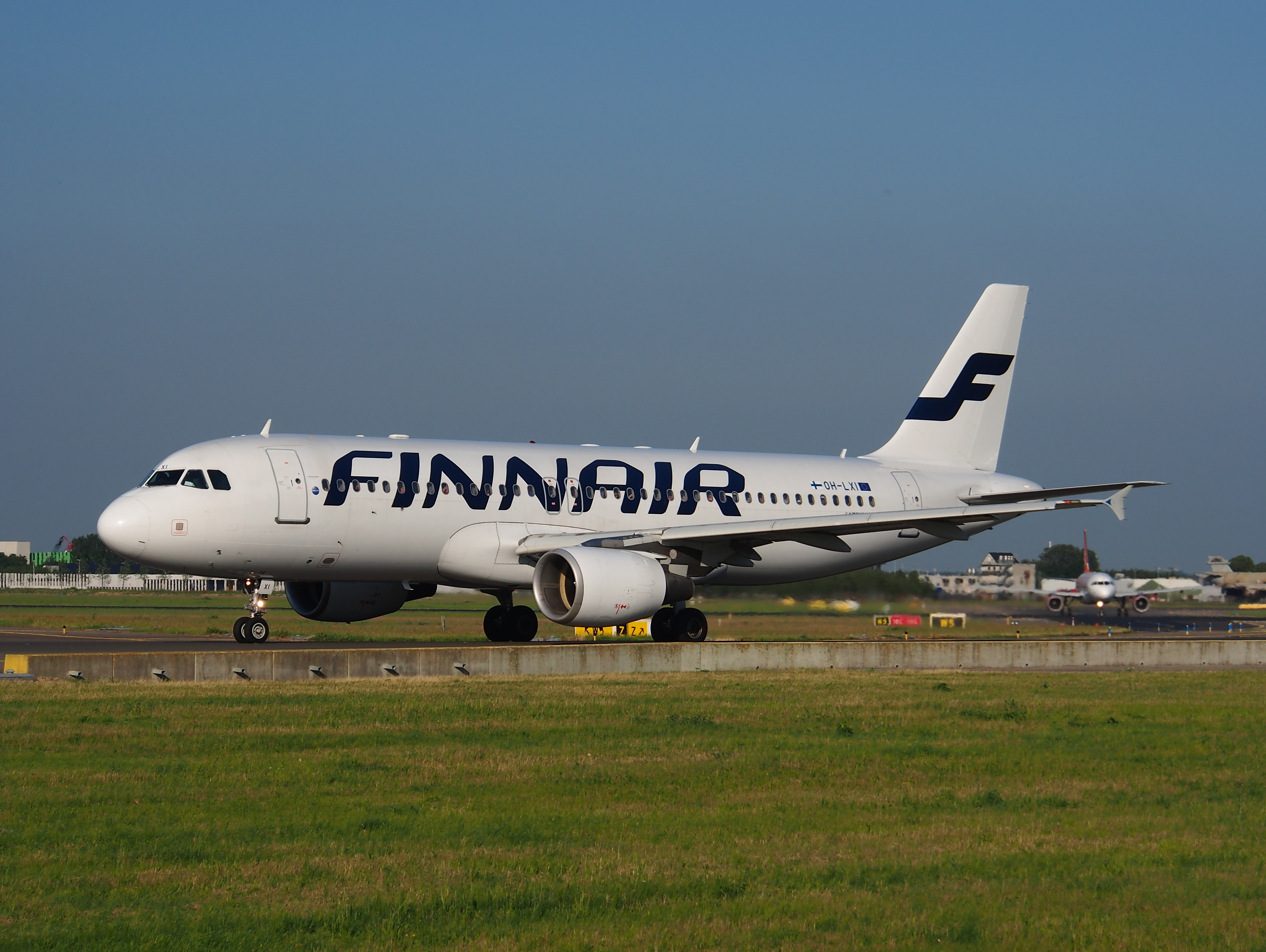 A Finnair Airbus A320-214 aircraft (OH-LXI) at Amsterdam Airport Schiphol (IATA: AMS, ICAO: EHAM), the Netherlands.